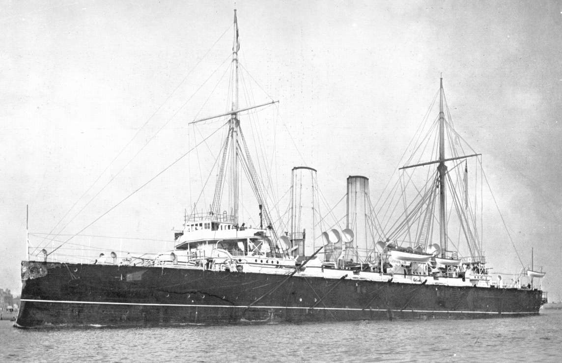 British cruiser HMS Theseus of 1892.